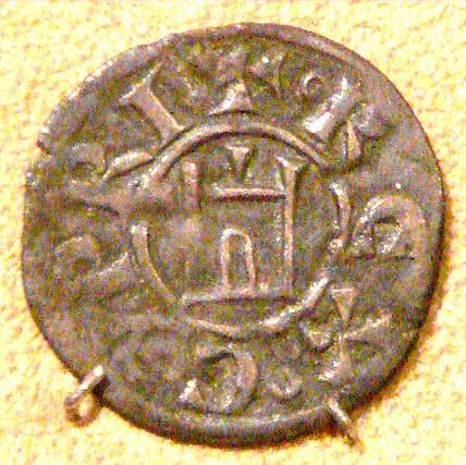 Silver Denier of Henry I Of Cyprus, 1218-1253